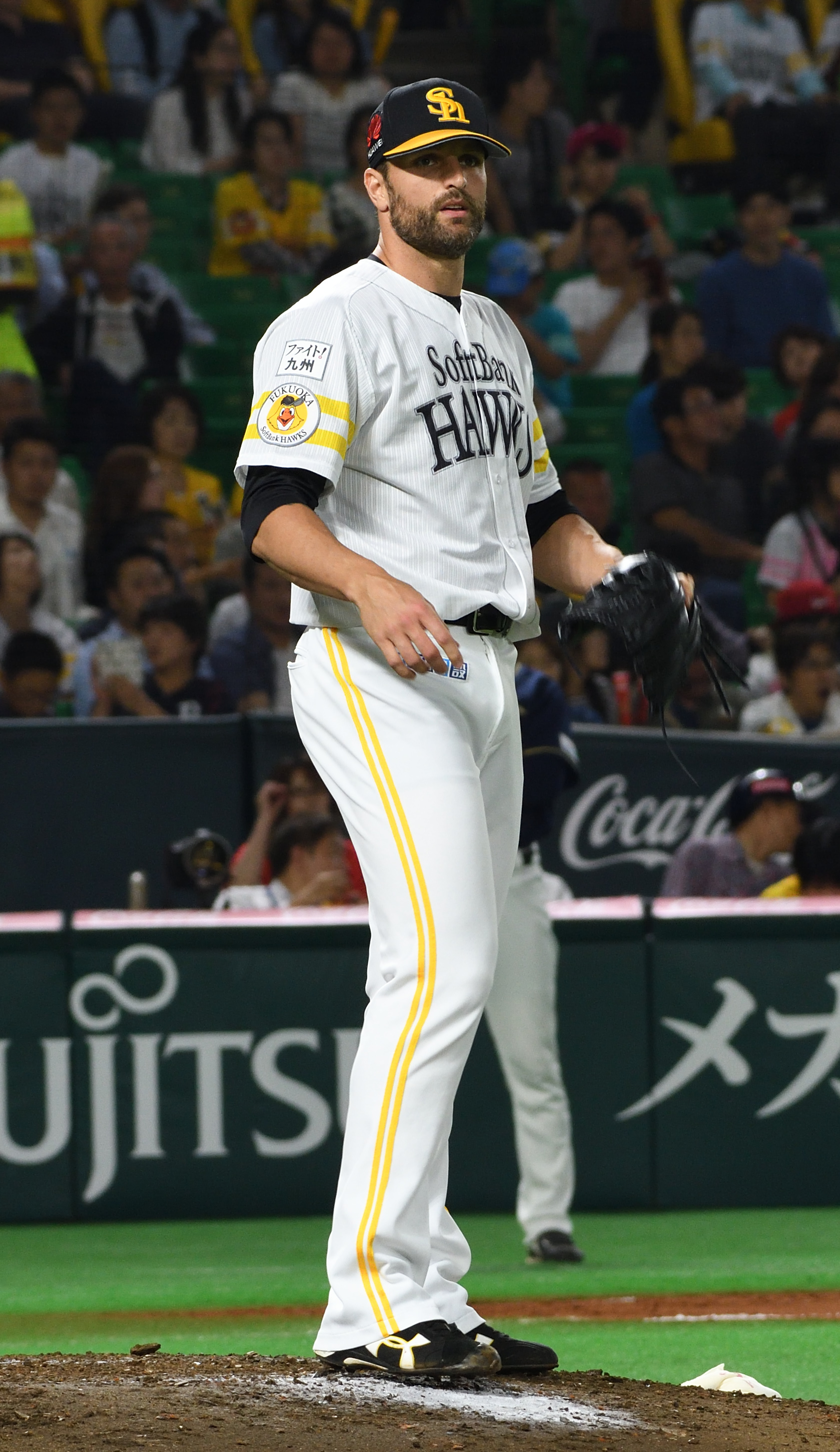 Dennis Sarfate, pitcher of the Fukuoka SoftBank Hawks, at Fukuoka Dome.